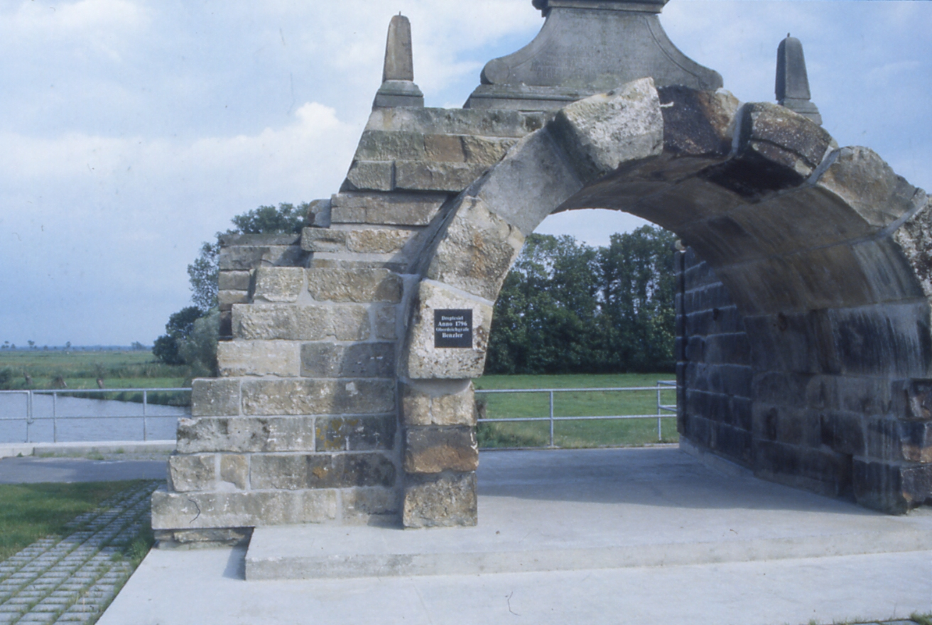 Stone arch of a 18th century valve (Sieltor) of the lower river Weser, where it is liable to the tide. For more than a century the stones had been hidden in the dike. They were discovered with the renovation of the dike in the 1990s.